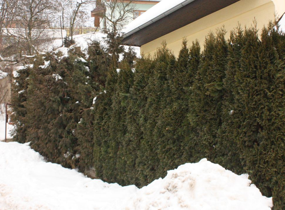 Thuja occidentalis, hedge, Czech republic, EU, Brno Komín